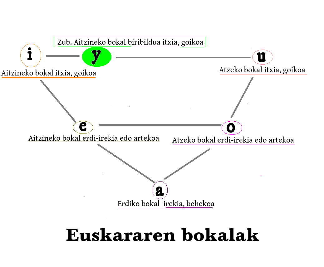 Vowel diagram in Basque (eu). Classified by mouth and tongue position.